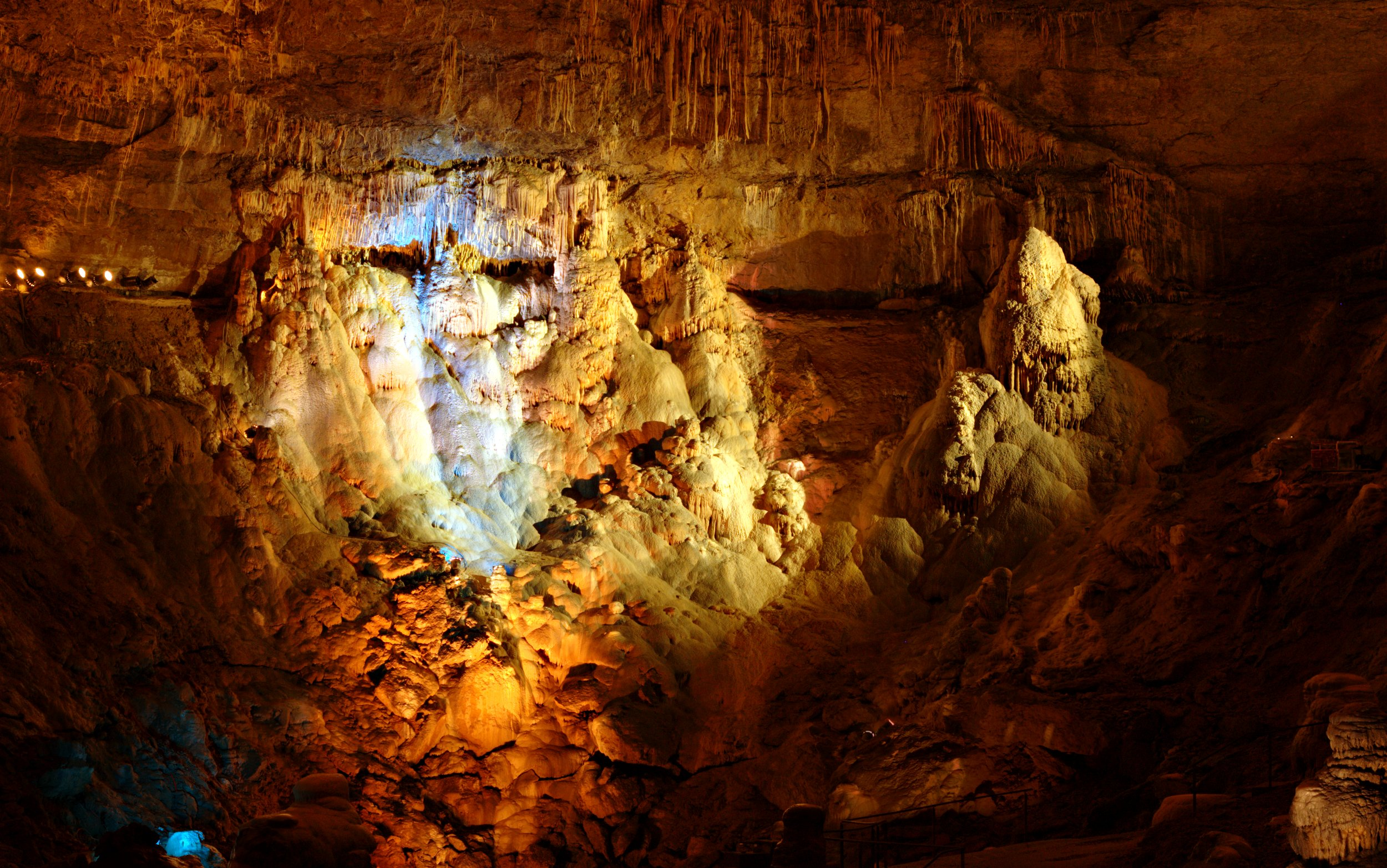 Pit cave of Poudrey (France).